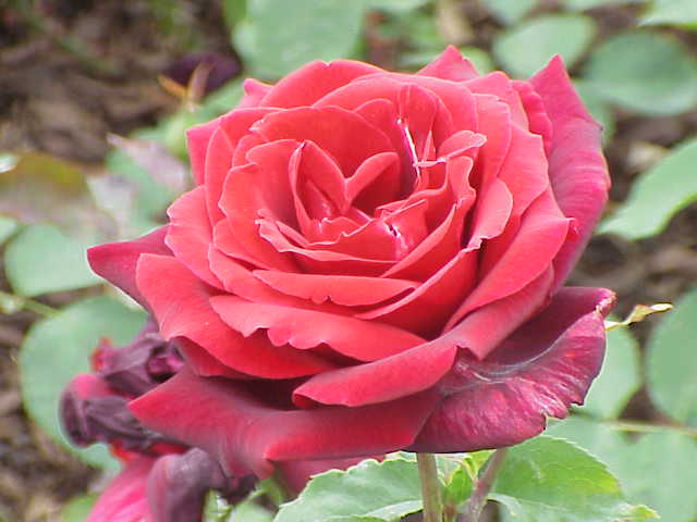 Species: Rosa sp. Family: Rosaceae Cultivar: Papa Meilland, Meilland 1963 Image No. 216